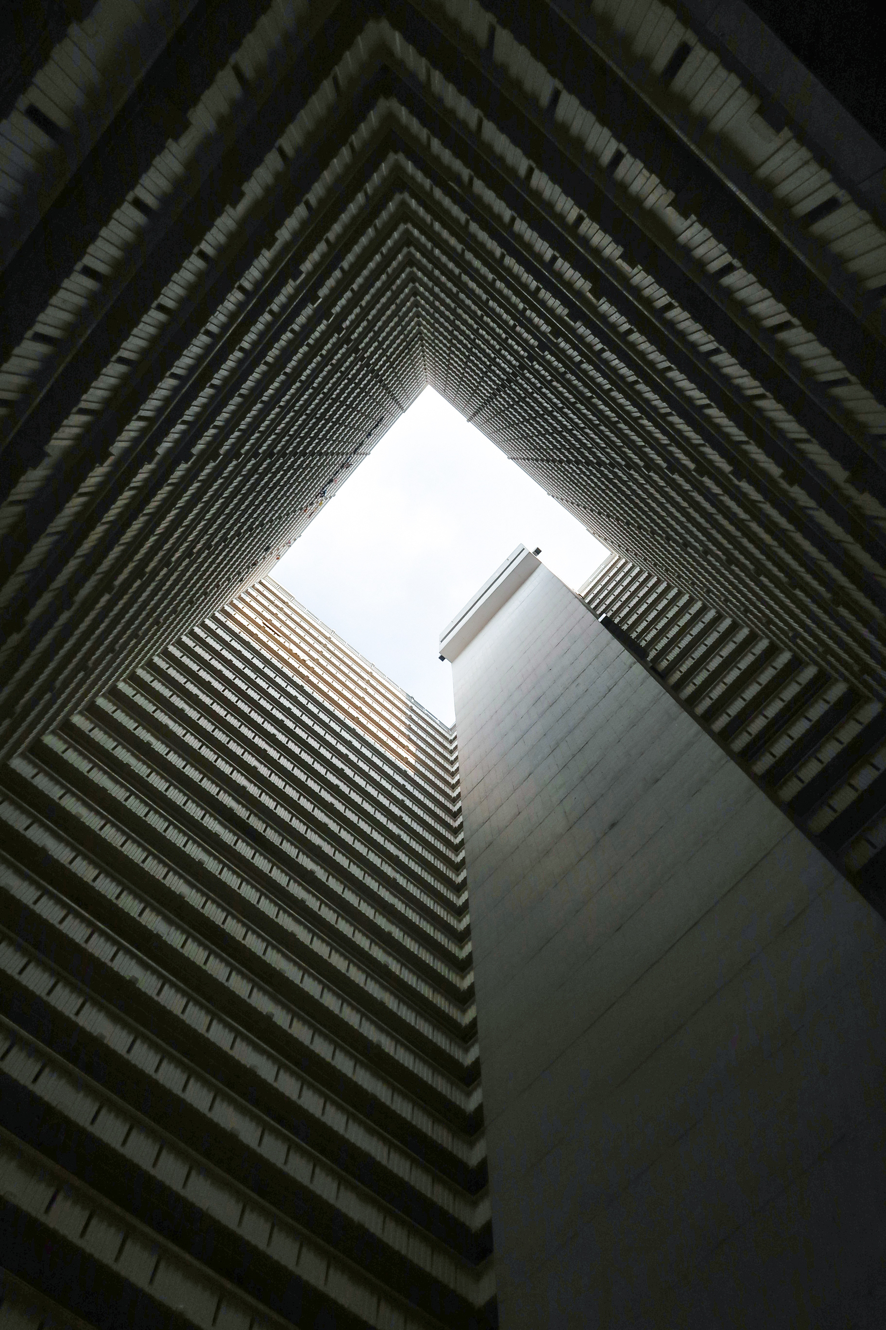 Ping Shek Estate Wong Shek House void